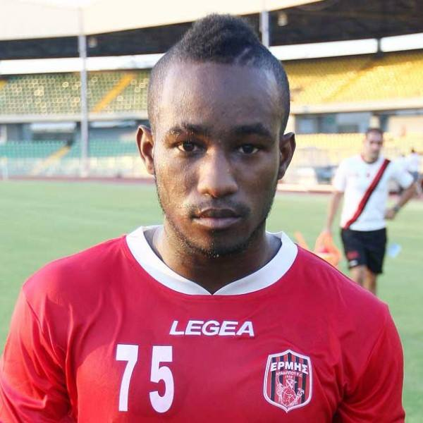 Game day: Ermis vs appolon limassol